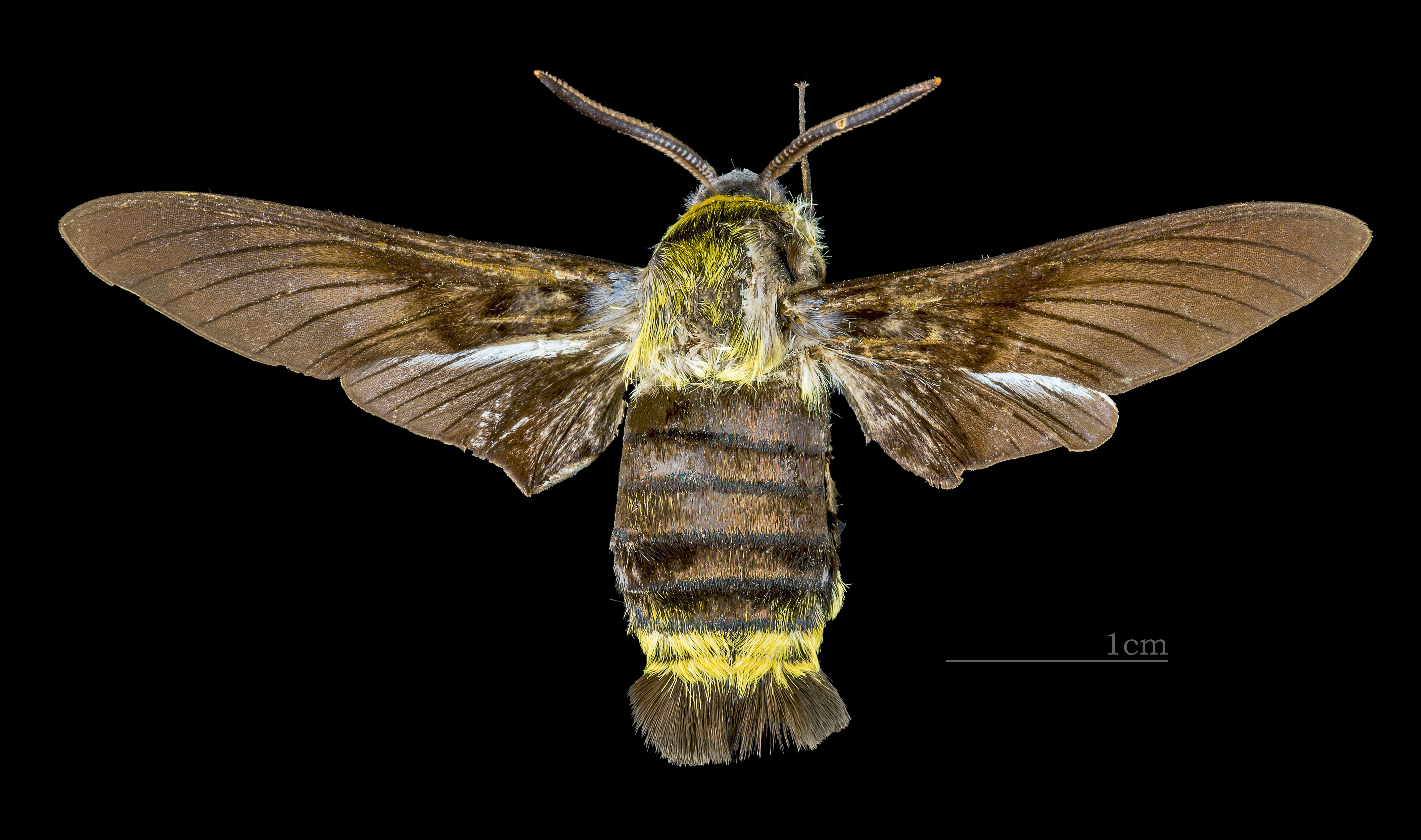 Sataspes infernalis - Dorsal side